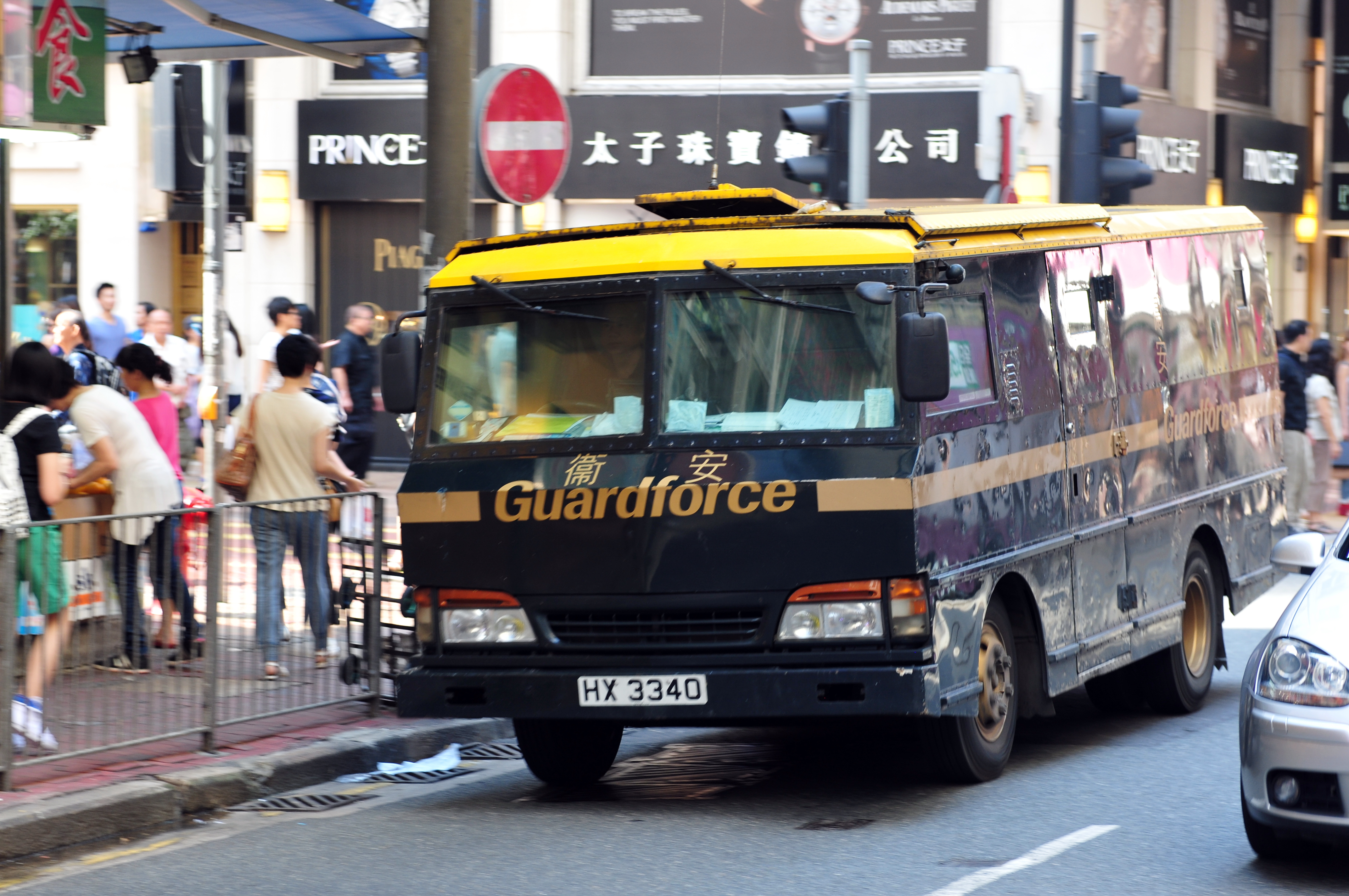 Guardforce armoured vehicle in Percival Street, Hong Kong.